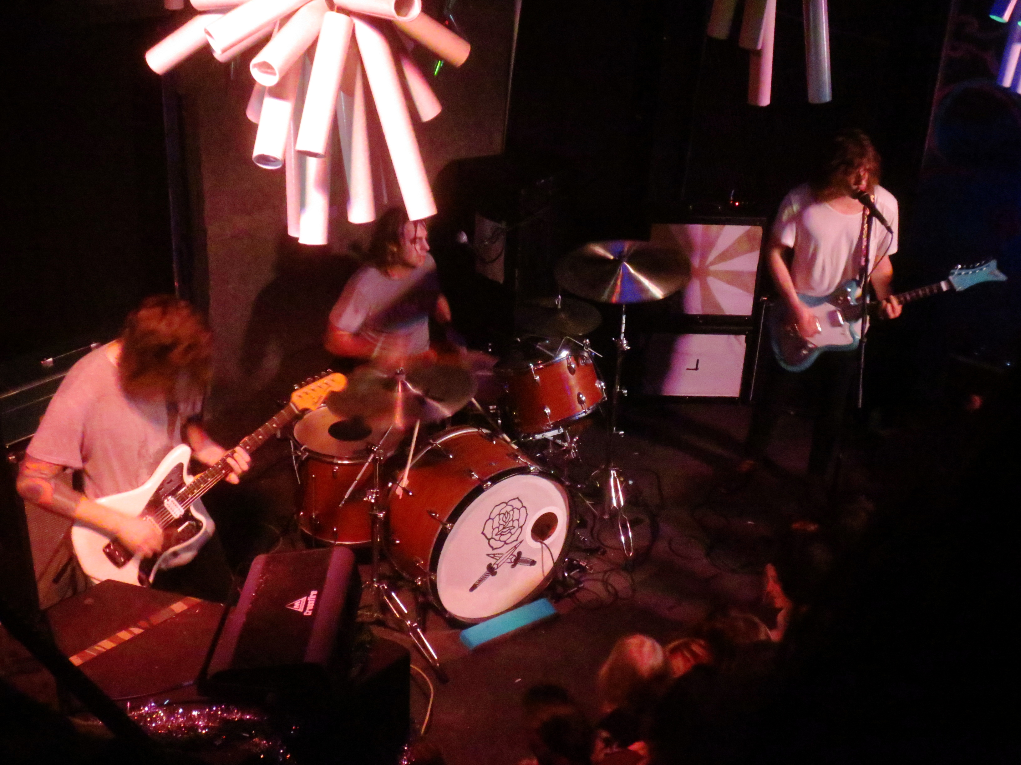 Bass Drum of Death @ Glasslands Gallery, Brooklyn, 12/28/2014